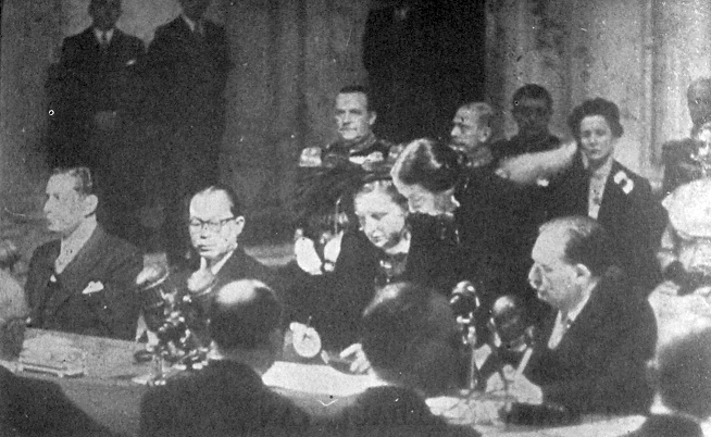 The signing ceremony recognizing Indonesian sovereignty in The Hague, 27 December 1949